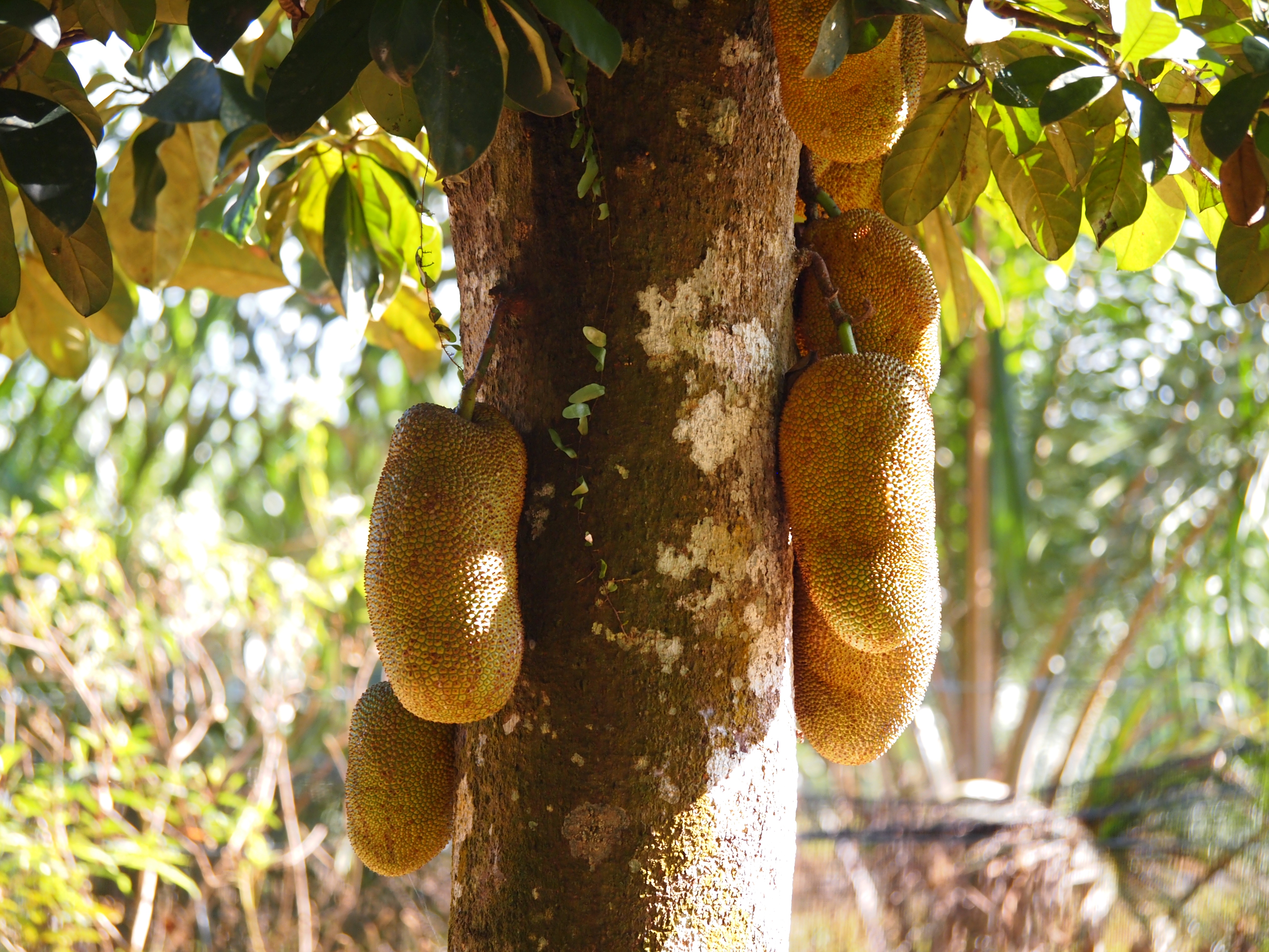 Artocarpus integer Fruit and Tree in Malaysia